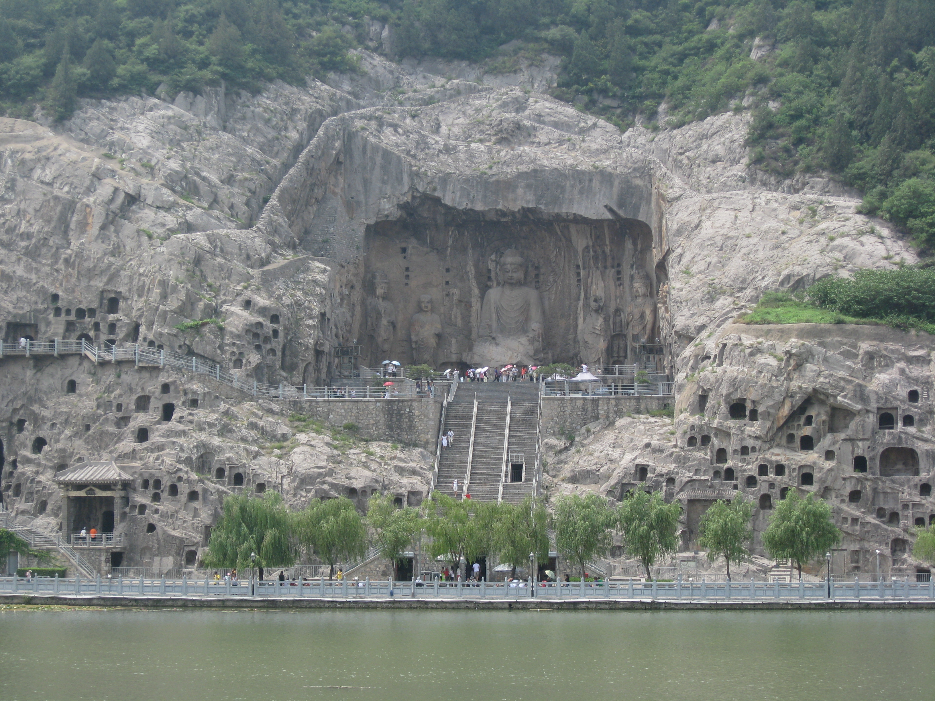 View of The Longmen Grottoes